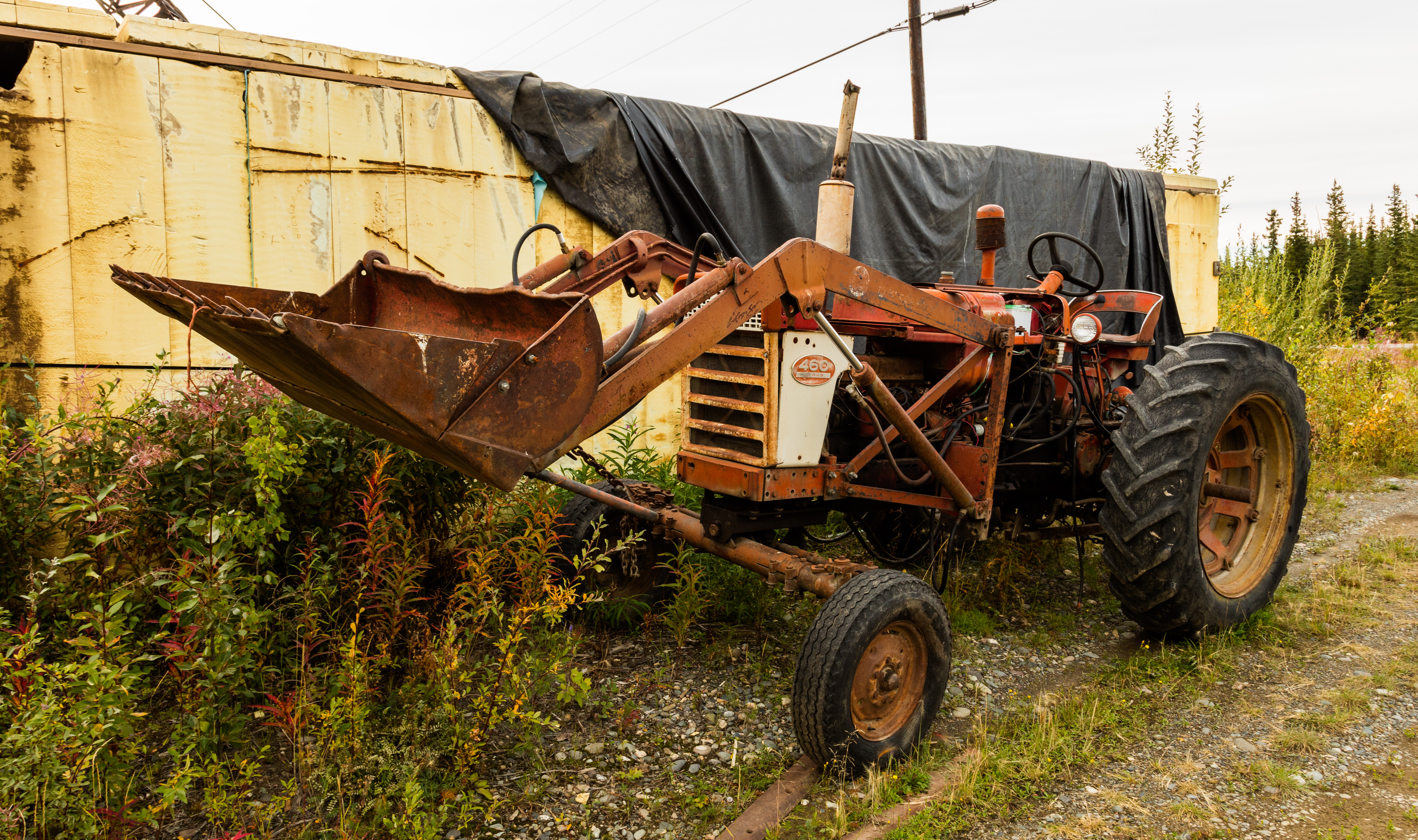 Farmall 460 tractor, Alaska, United States